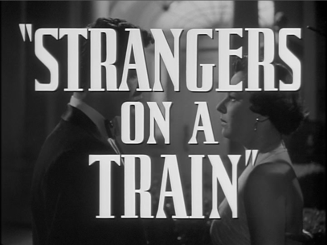 Trailer title shot for Alfred Hitchcock's 1951 Strangers on a Train.